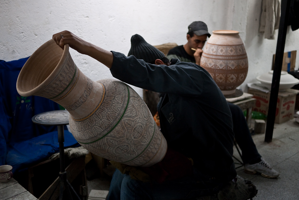 Inside a ceramics workshop in the city of Fes (Fez), Morocco.